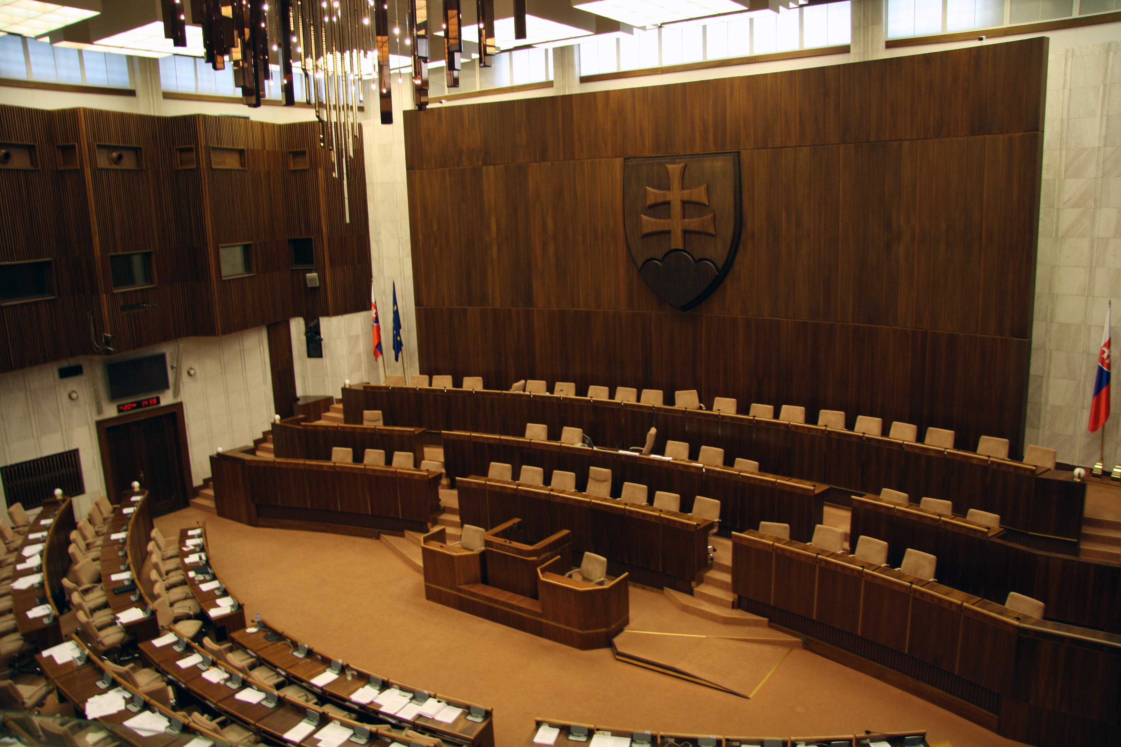 National Council of the Slovak Republic, Bratislava, Slovakia